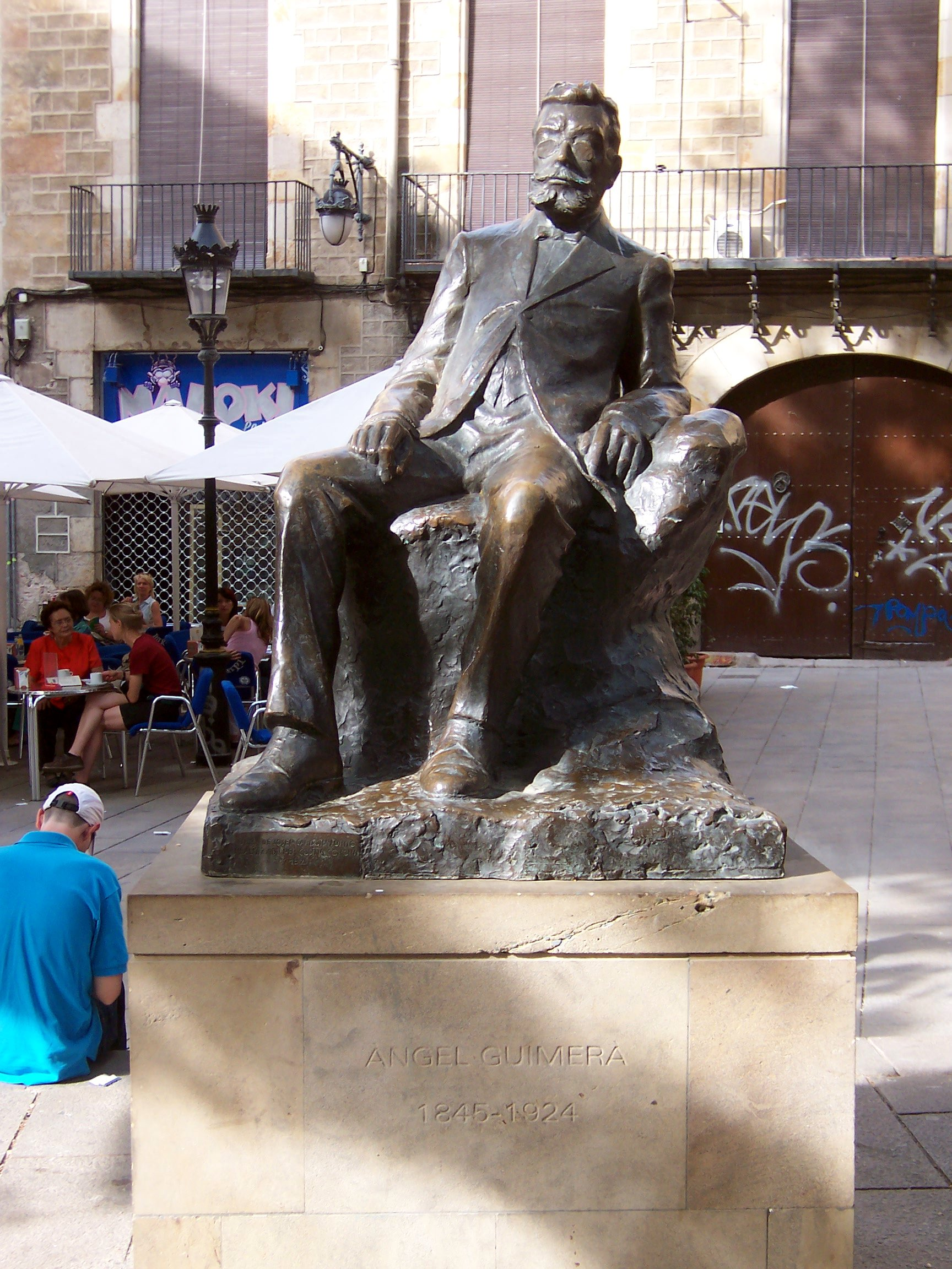 Statue of Àngel Guimerà, in Sant Josep Oriol Square, in Barcelona.